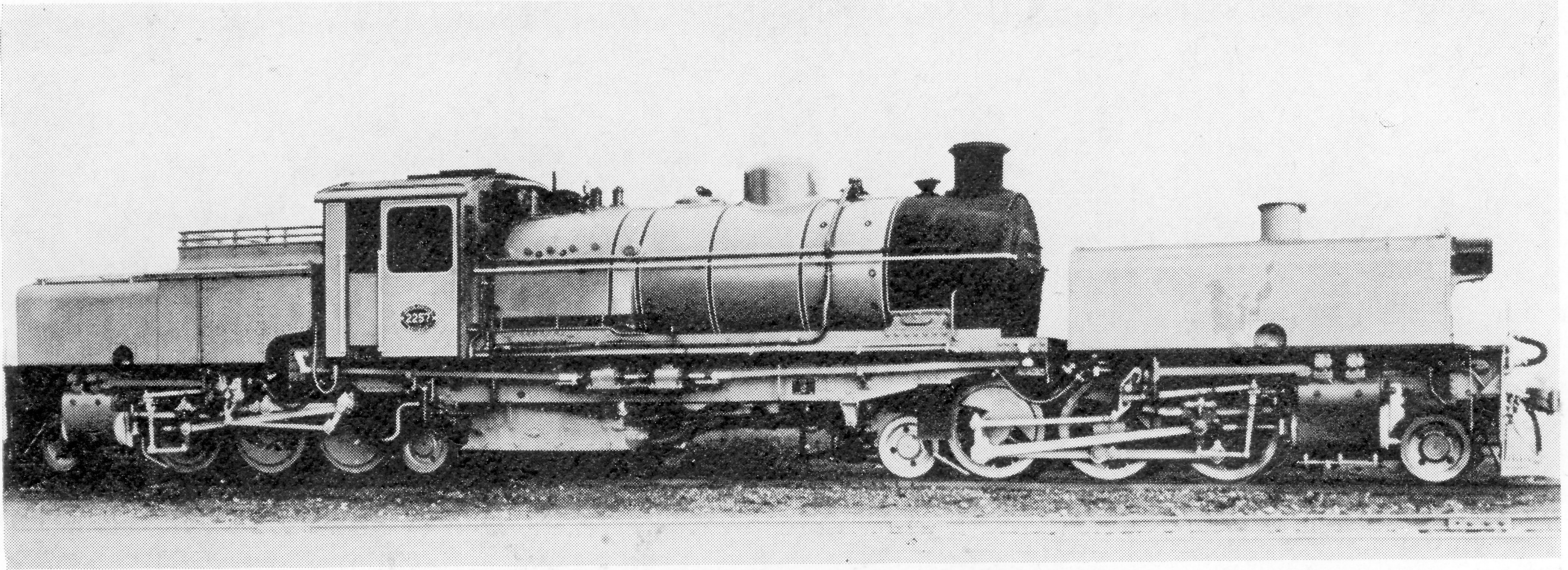 SAR Class GDA no. 2257 2-6-2+2-6-2